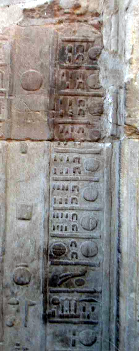 Egyptian ancient calendar (?) based on Nile flooding, Kom Ombo temple.